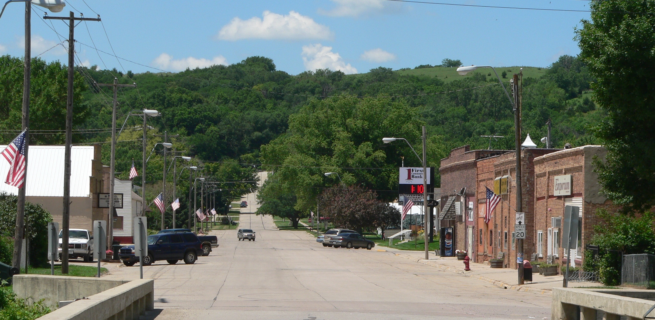 Downtown Homer, Nebraska: John Street, looking west from about 1st Street.